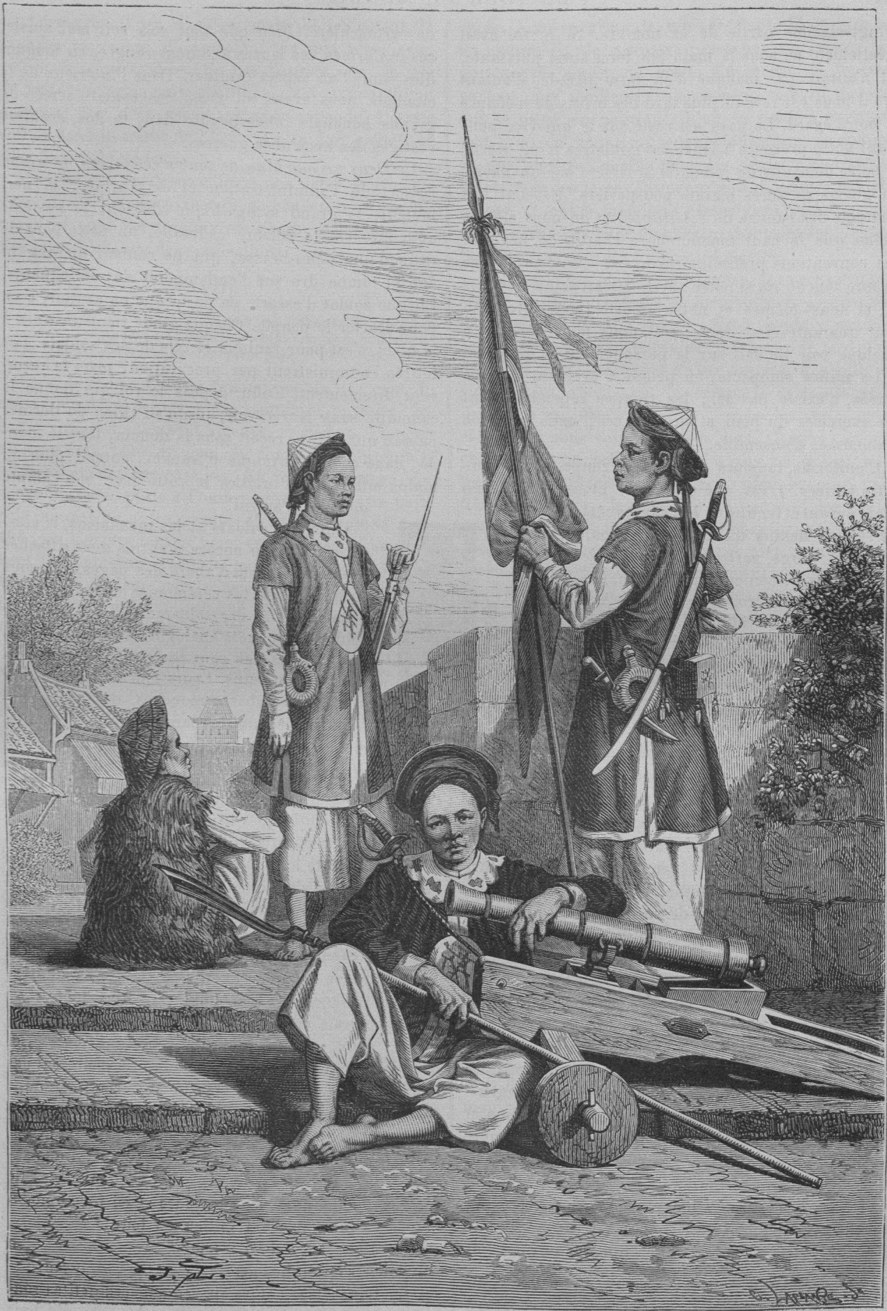 Vietnamese_Tirrailleurs_of_Nguyen